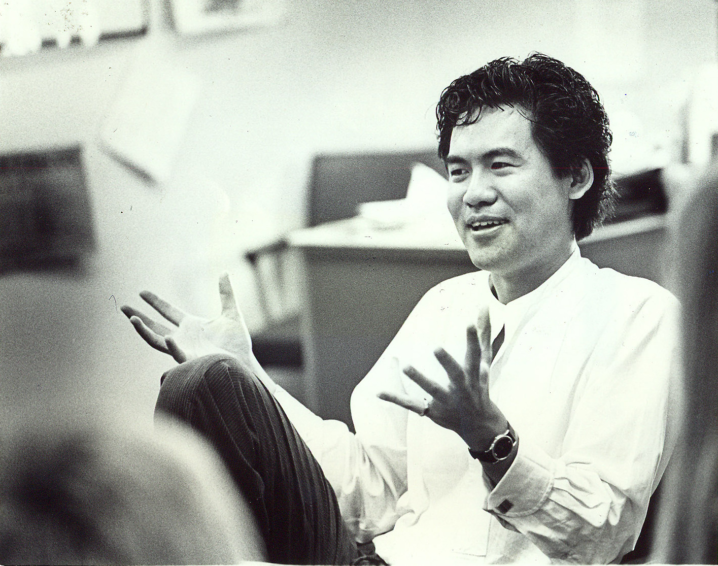 Playwright David Henry Hwang teaching a writing class in San Francisco's Fort Mason in 1979. Photograph by Nancy Wong